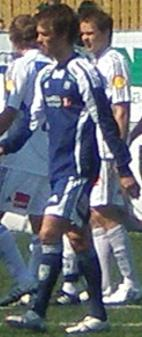 Picture of Tor Erik Torske.